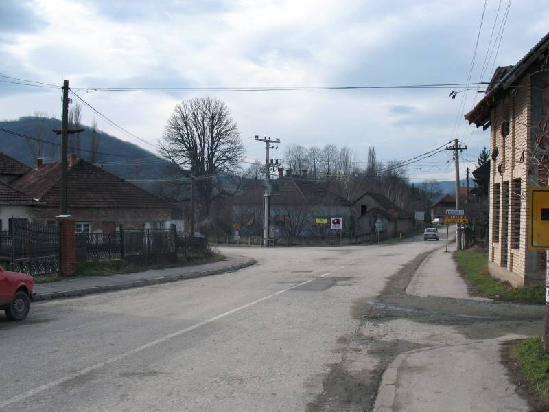 Oparić